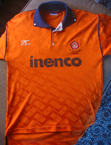 Blackpool F.C.'s home shirt for the 1992-93 season.